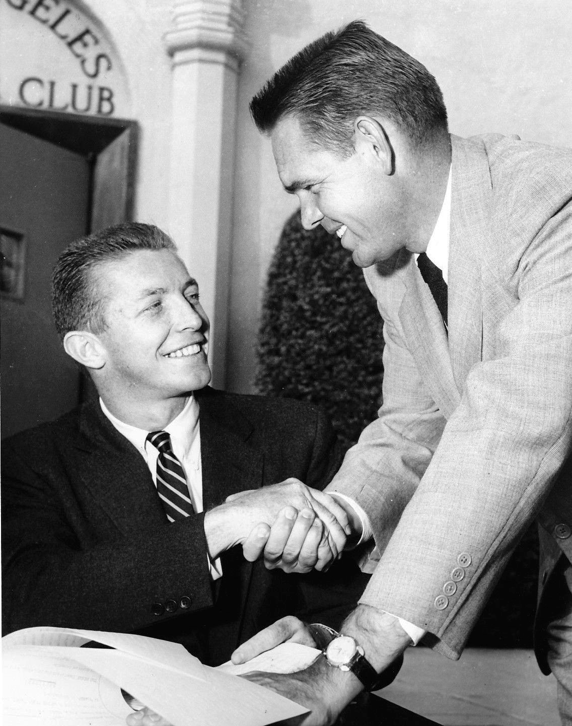 TONY TRABERT SHAKES HANDS WITH JACK KRAMER 10/19/55 ORIGINAL UPI WIRE 8X10 PHOTO